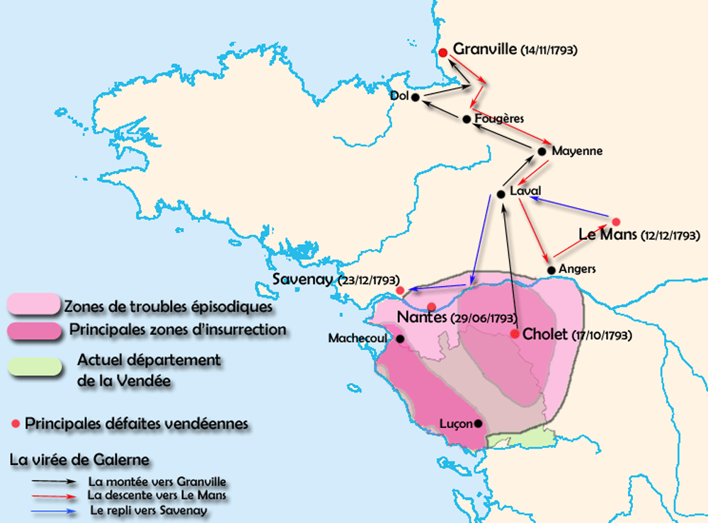 Map of war of Vendée - 1793